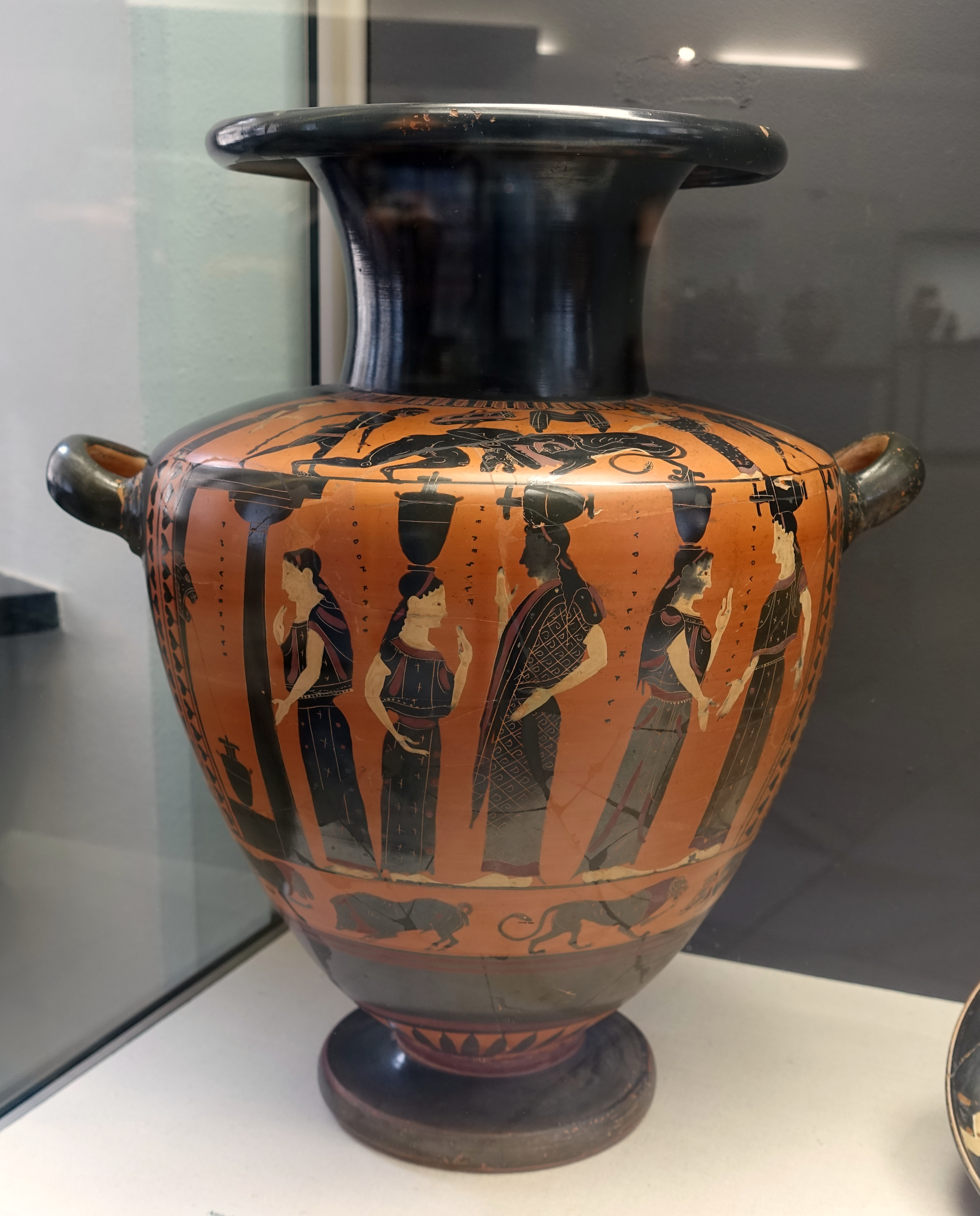 Exhibit in the Martin von Wagner Museum - Würzburg, Germany.